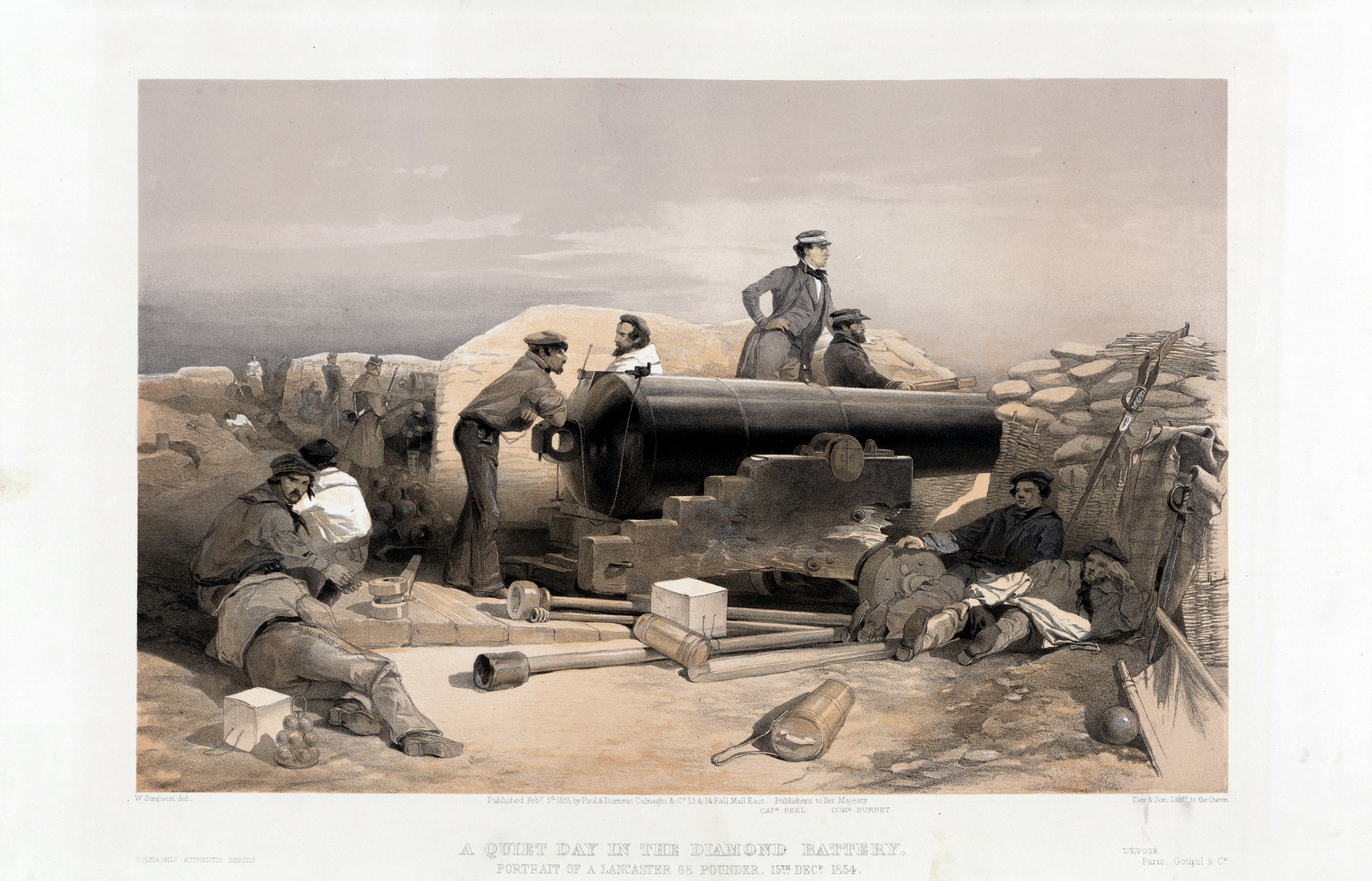 Lithograph : "A Quiet Day in the Diamond Battery - portrait of a Lancaster 68 pounder, 15th Decr. 1854". Depicts a British naval gun deployed ashore in the Crimean War.